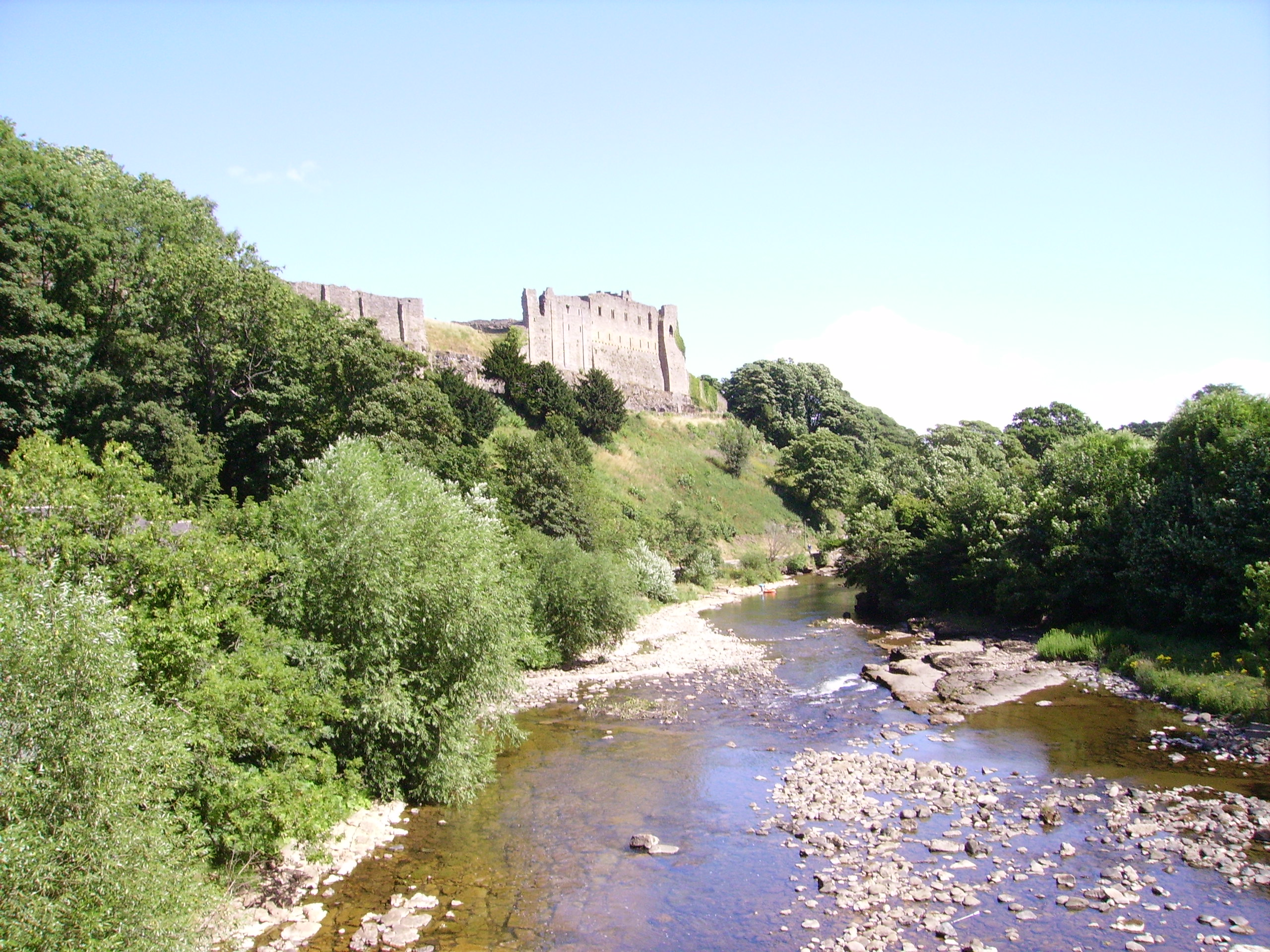 view of Richmond, United Kingdom